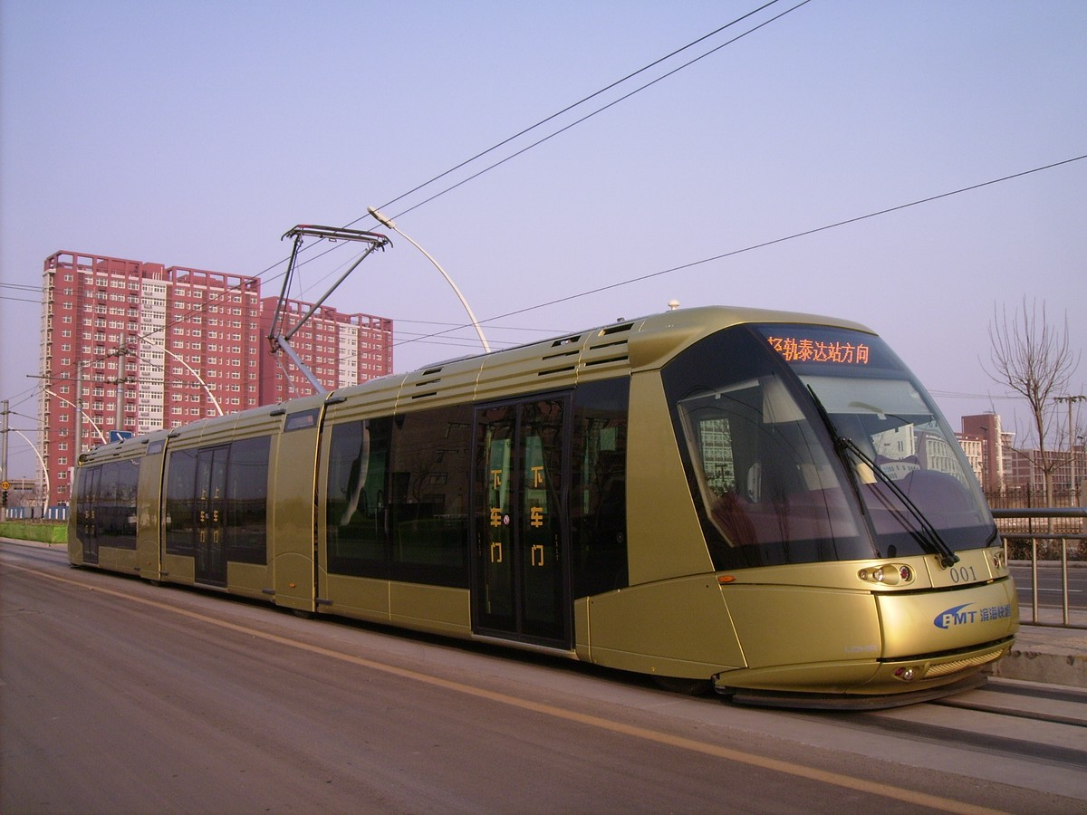 Translohr in Binhai New Area (aka Tanggu), Tianjin